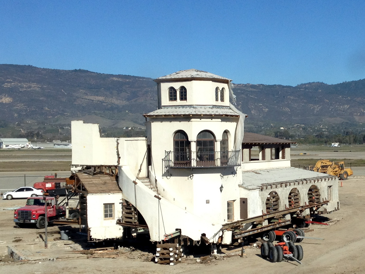 The old Santa Barbara Airport terminal building in preparation to be moved to integrate with the new terminal building.